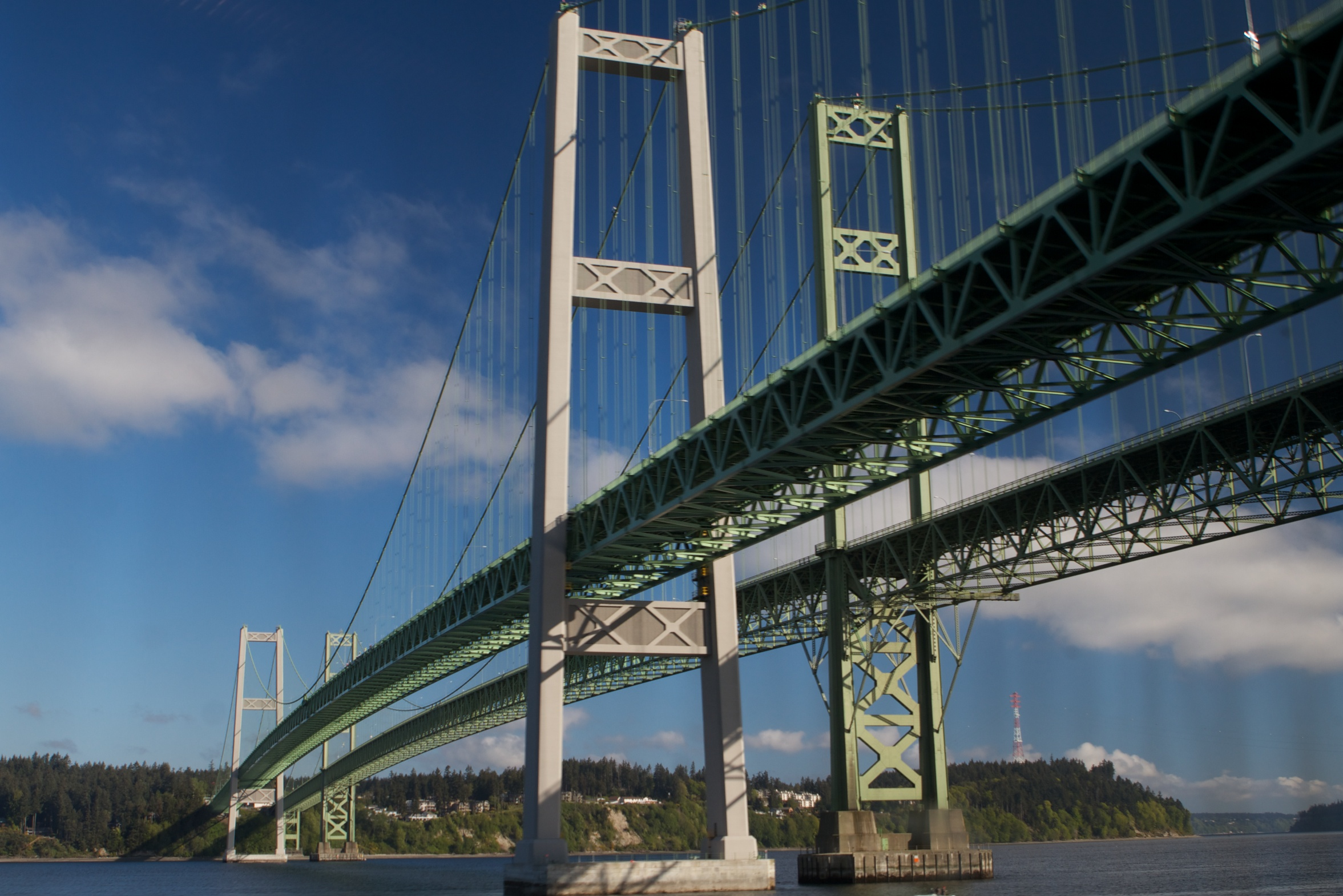 The Tacoma Narrows Bridge at Tacoma in United-States